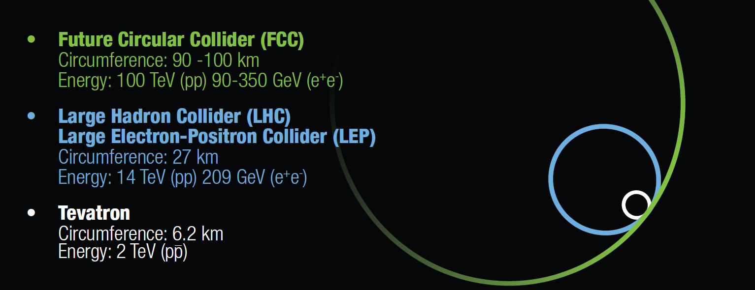 Drawing shows the scenarios foreseen for future circular colliders compared to Tevatron and LHC/LEP.